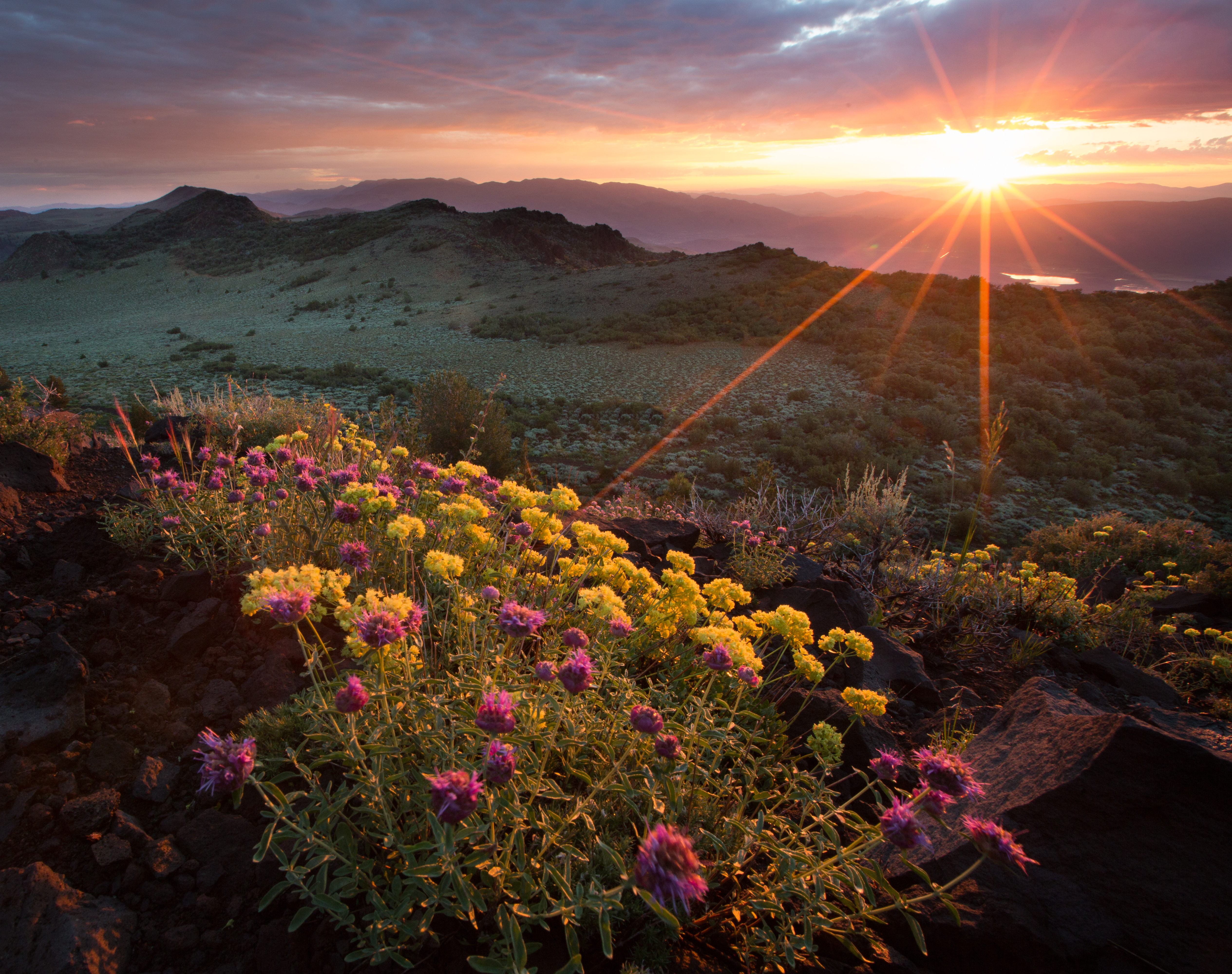 Ending the day with a few colorful sunrise shots from Slinkard Wilderness Study Area in California - taken by BLMer Bob Wick this morning. The view - from a 9,000-foot (2,700 m) peak just south of Monitor Pass - looks towards Topaz Lake, Nevada. #mypubliclandsroadtrip Although the winter had record low precipitation levels in the Sierra, moisture in late spring and summer has resulted in a good wildflower bloom. A note from Bob - I not adjust the color saturation on this -- it was just one of those "saturated" mornings!